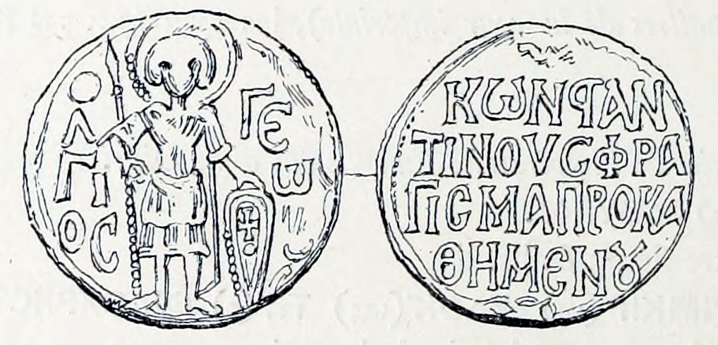 Seal of Konstantinos the prokathemenos (Palaiologan period)